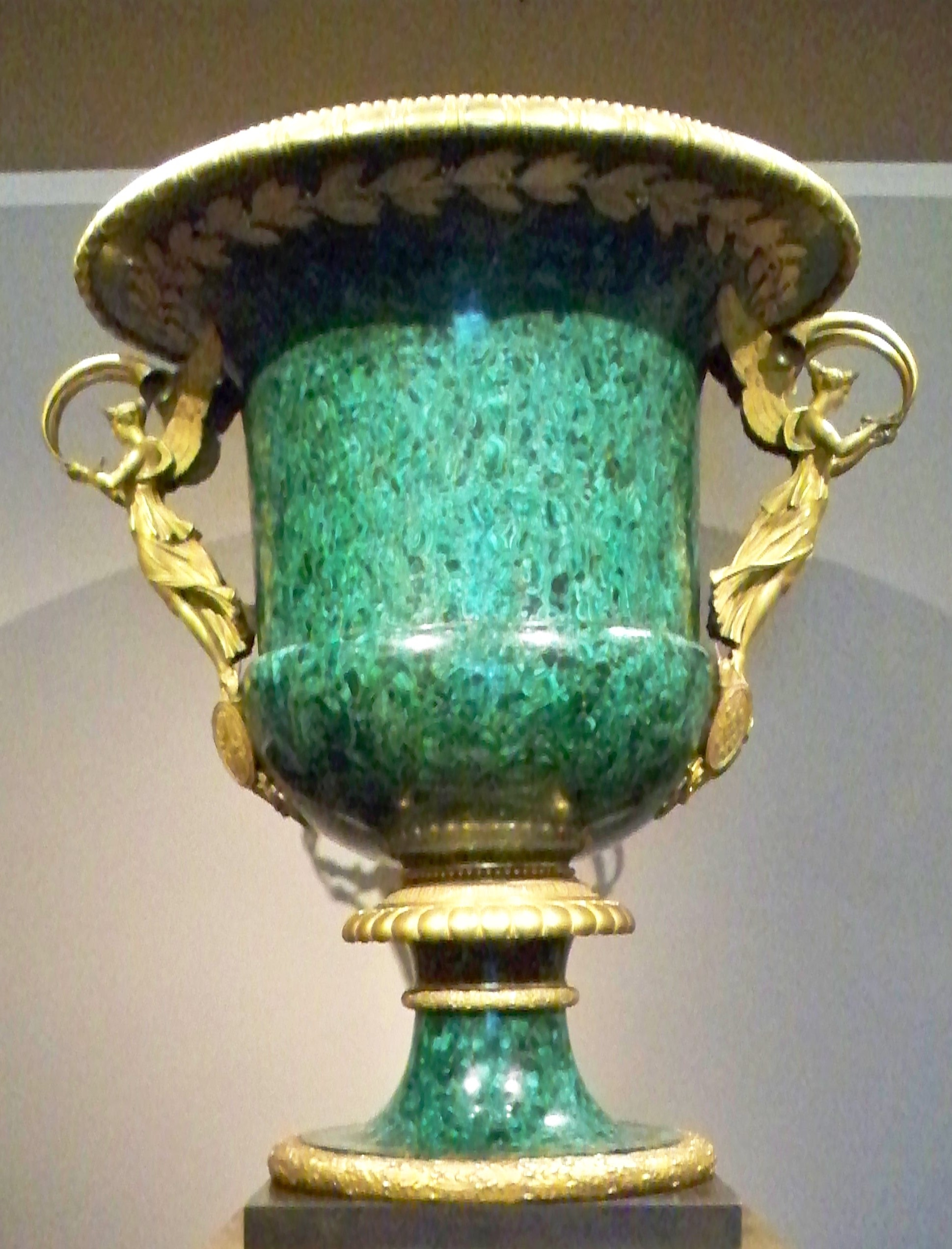 The Demidoff Vase, malachite and gilt bronze, Paris, 1819, at the Metropolitan Museum of Art.